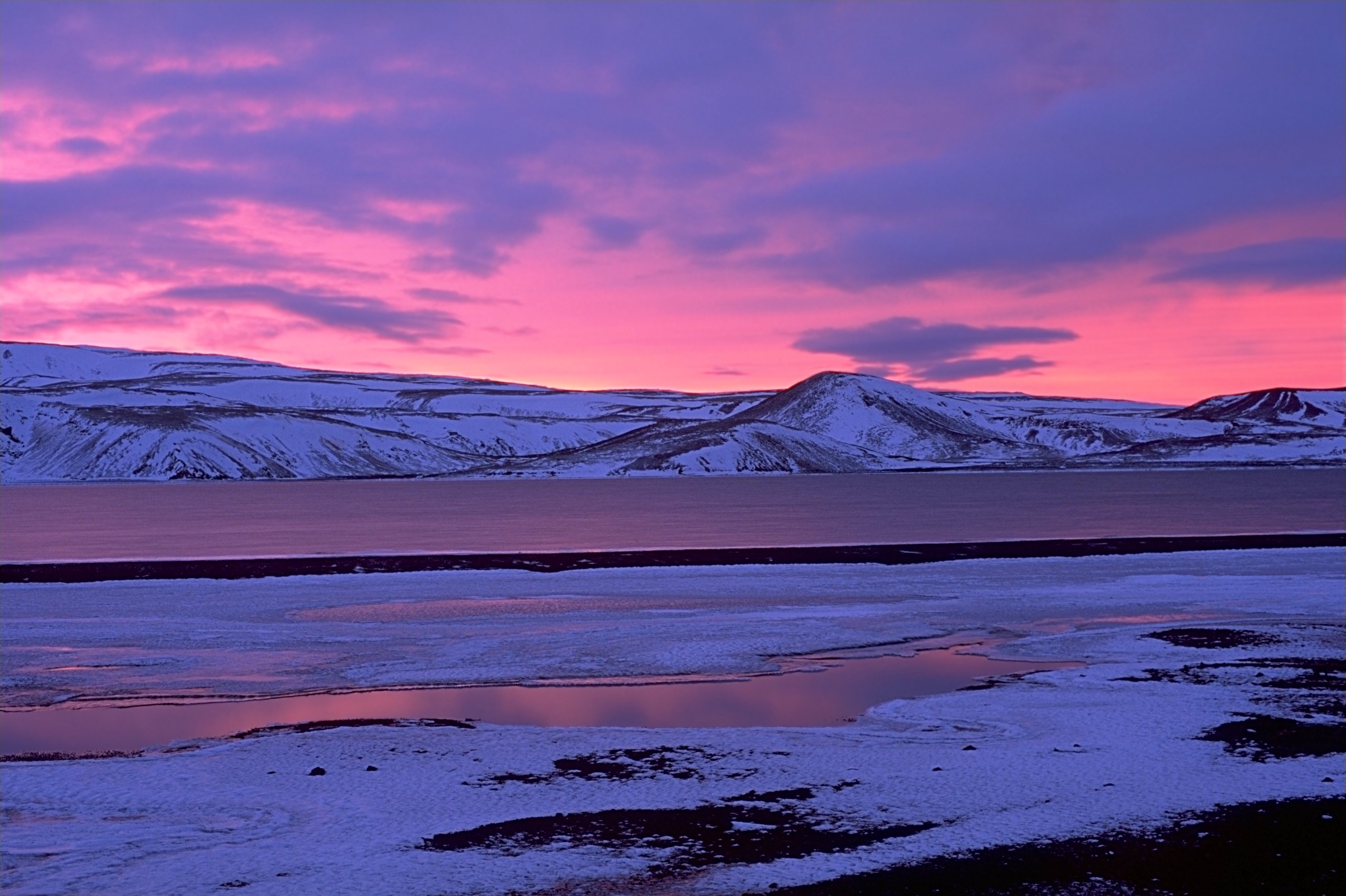 Sunrise at Kleifarvatn in Winter, Iceland Photo was taken using the following technique: Film: Fuji Velvia Lens: 2.8/28 Filter: none Body: Minolta 7 Support: Manfrotto 190B Image with Information in English Bild mit Informationen auf Deutsch